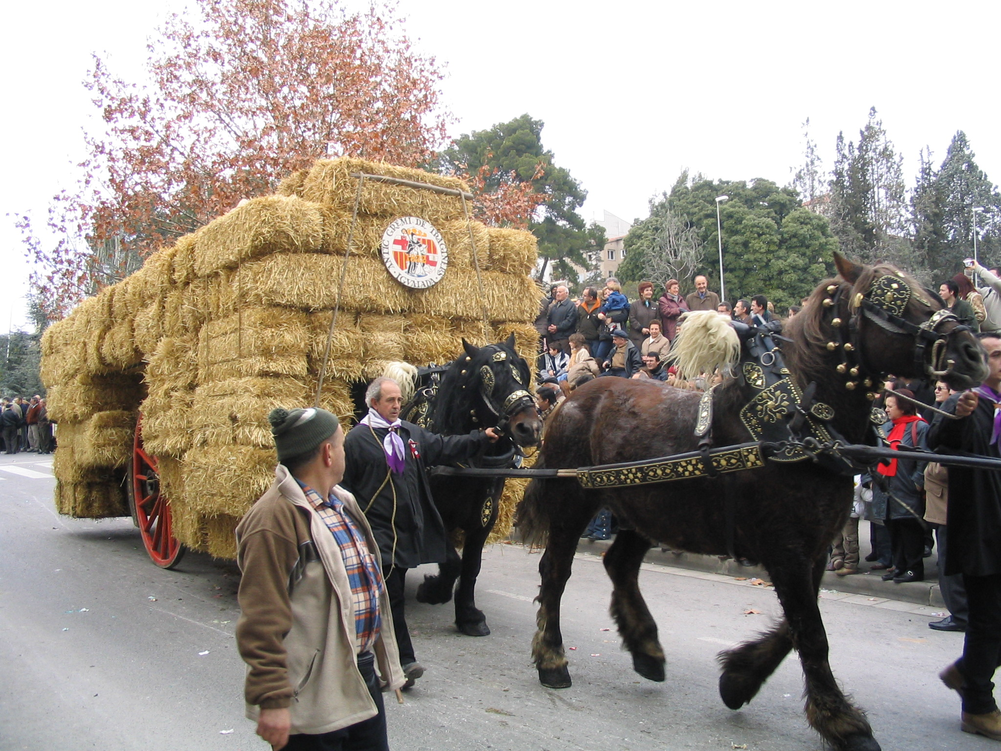 Tres Tombs - Igualada 22-01-2006